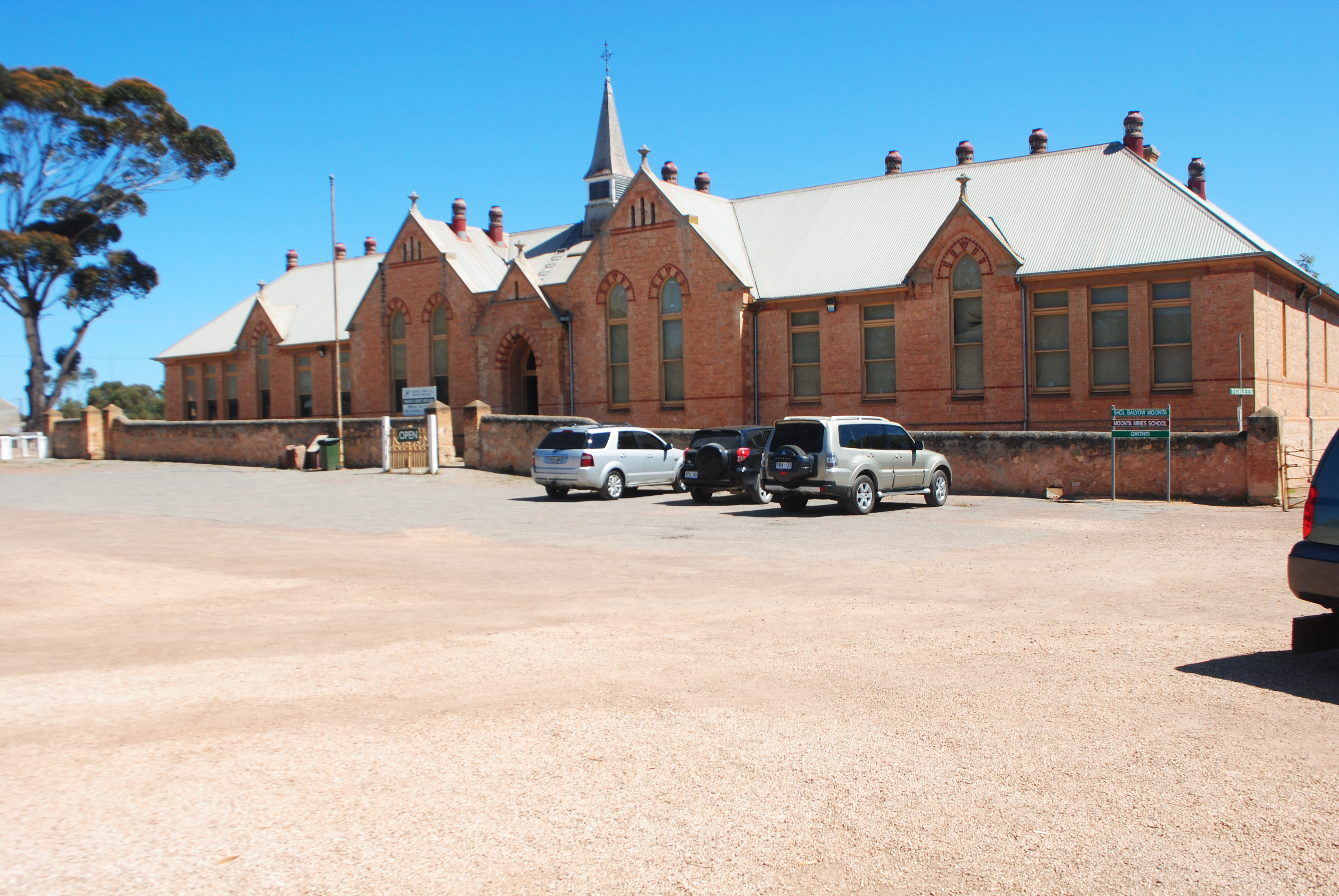 Moonta Mines School 1